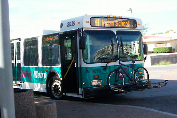 Photo taken by the uploader and modified slightly in Adobe Photoshop. Valley Metro bus at Loloma Transit Center in Scottsdale. This is a 2007 New Flyer D60LF, owned by the City of Phoenix and operated by First Transit. (City of Phoenix logo can be seen above the front door to the left of the coach number).